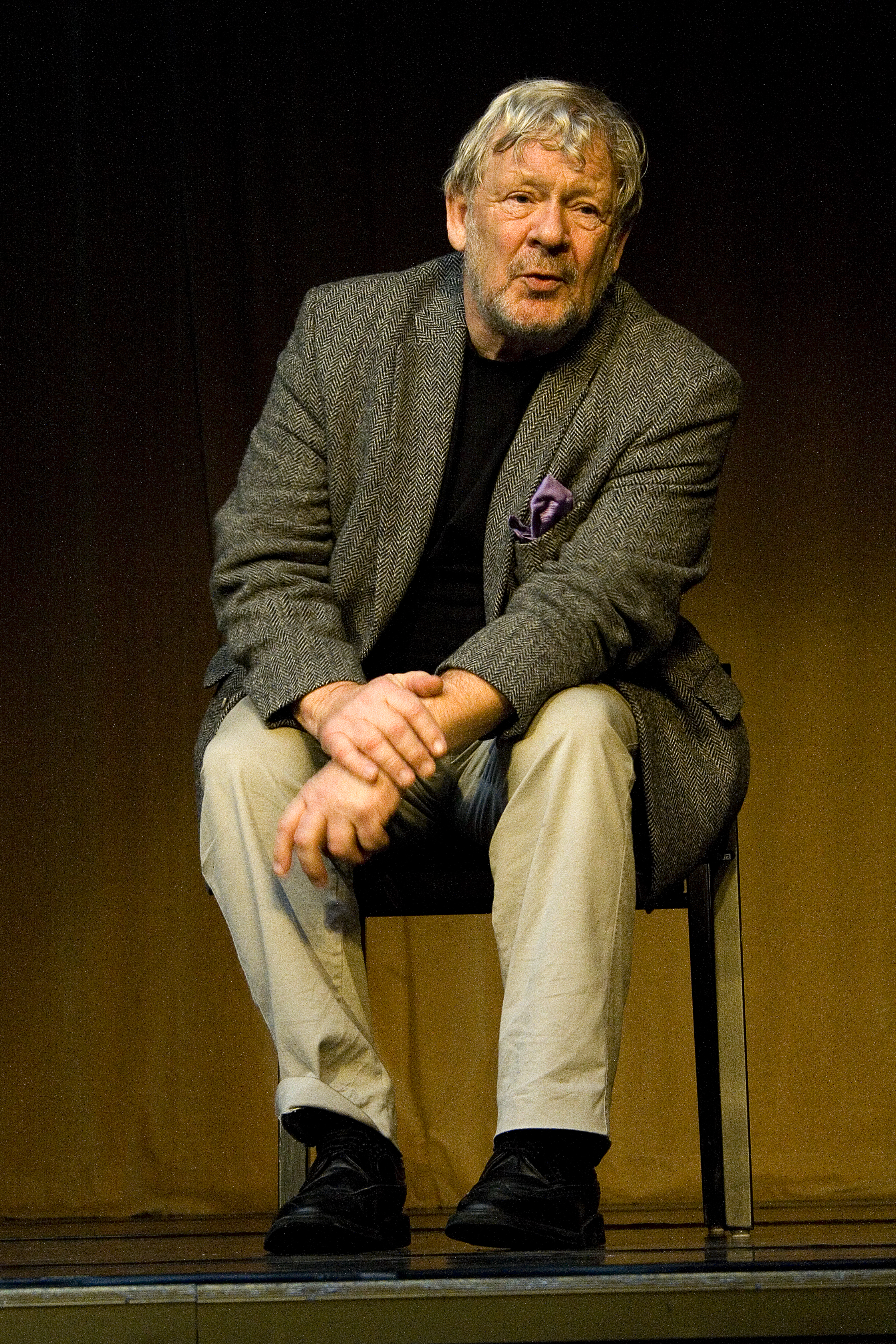 Swedish actor Börje Ahlstedt